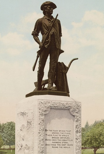 Danial Chester French's statue of a minuteman, at the North Bridge in Concord, Massachusetts, showing base with inscription